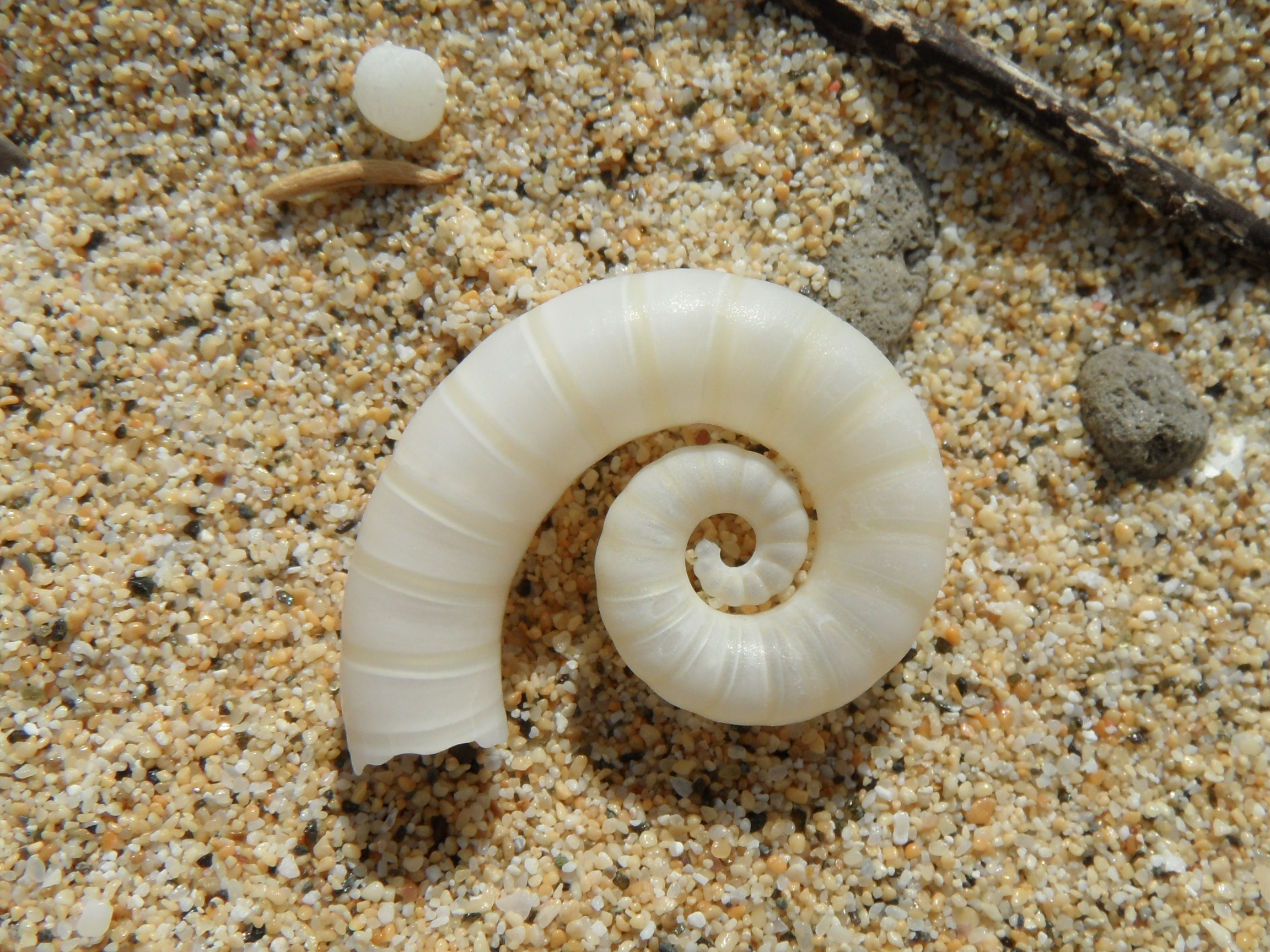 Ram's Horn Shell (Spirula spirula)